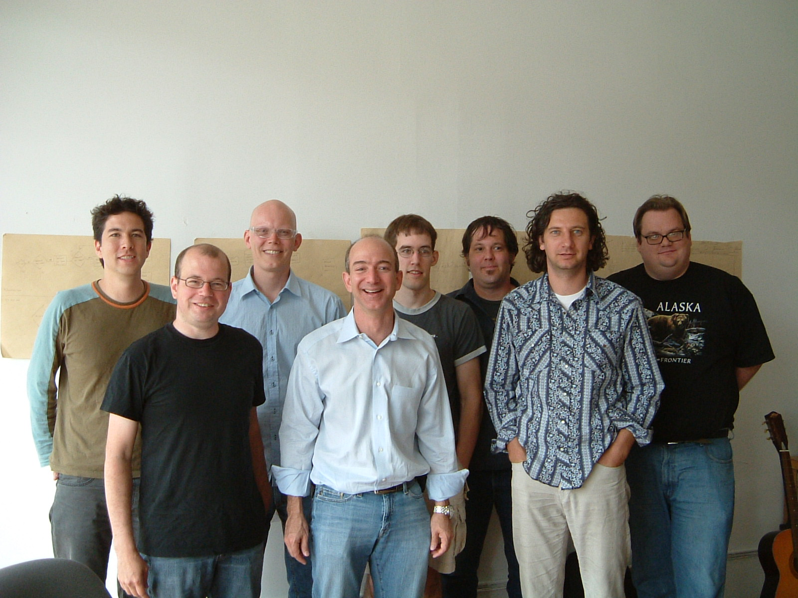 Robot Co-op, makes of 43 Things with Jeff Bezos.